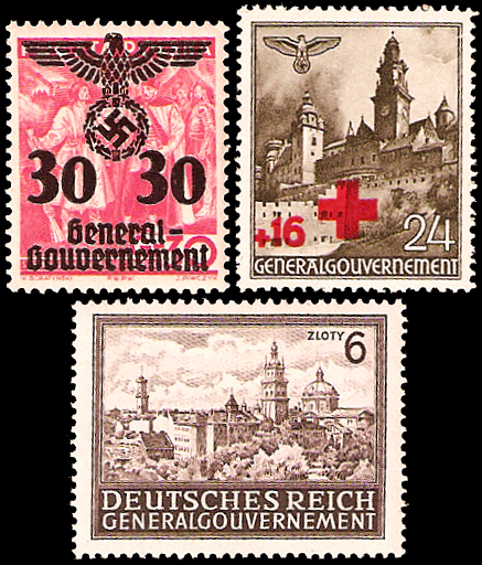 Stamps of General Government/Znaczki pocztowe GG